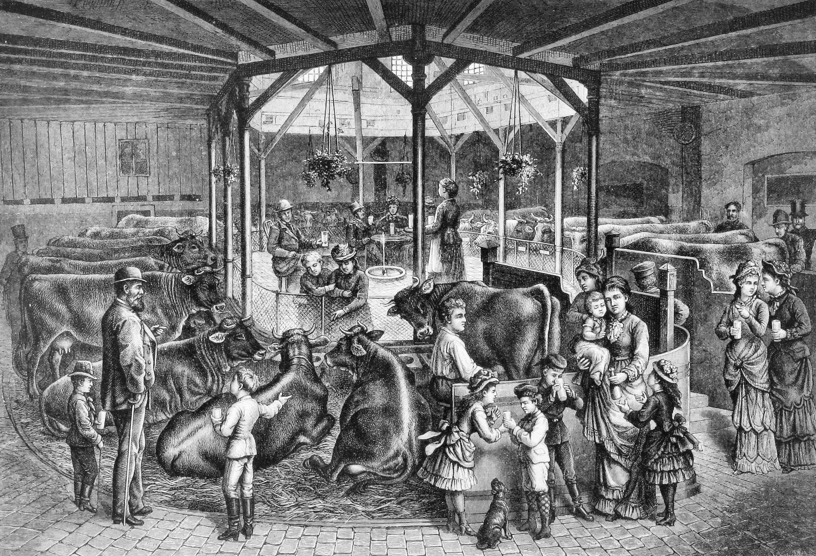 caption: "Centralstelle der Wisse’schen Milchcuranstalt in Dresden. Originalzeichnung von Ing. von Hartitzsch."